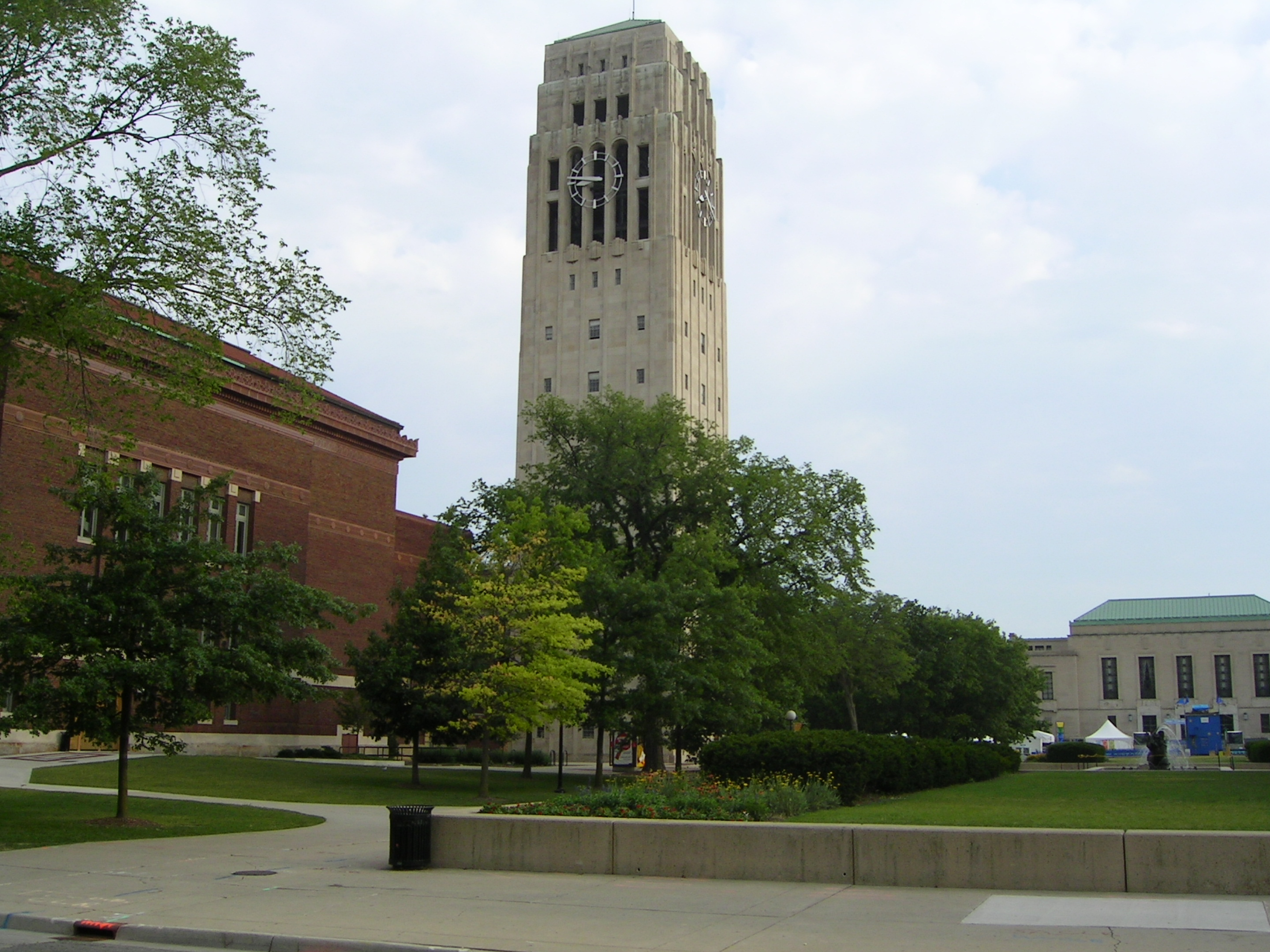 Own work Attribution required University of Michigan Campus: Hill Burton Rackham